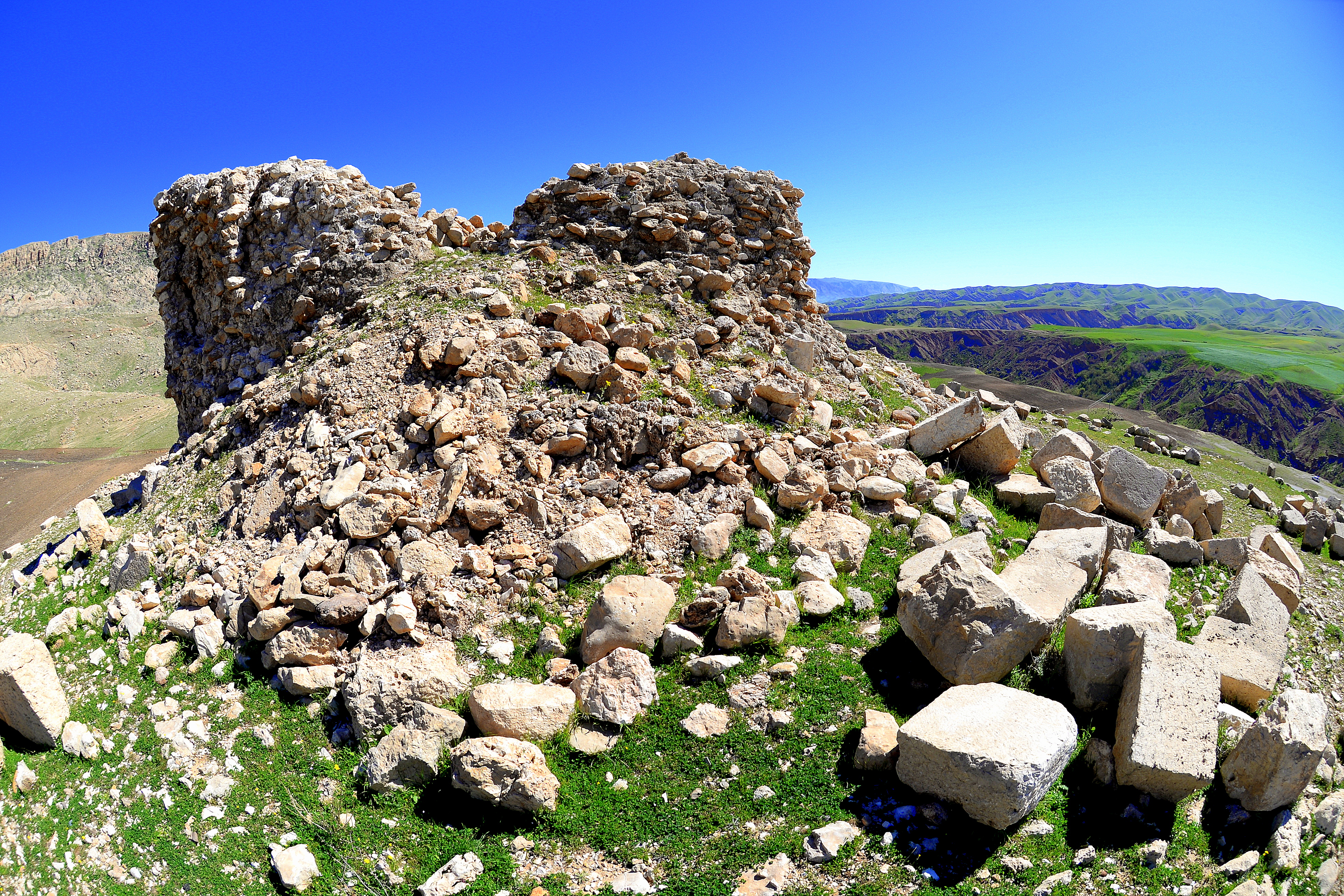 Ruins of the Paikuli tower. This is the western wall; the middle Persian version of the inscriptions was used here. The stone blocks which were used to build the tower are scattered all around the monument; these stone blocks bear no inscriptions. Nikon D610 with an AF DX Fisheye-Nikkor 10.5mm f/2.8G ED lens. March 2015.